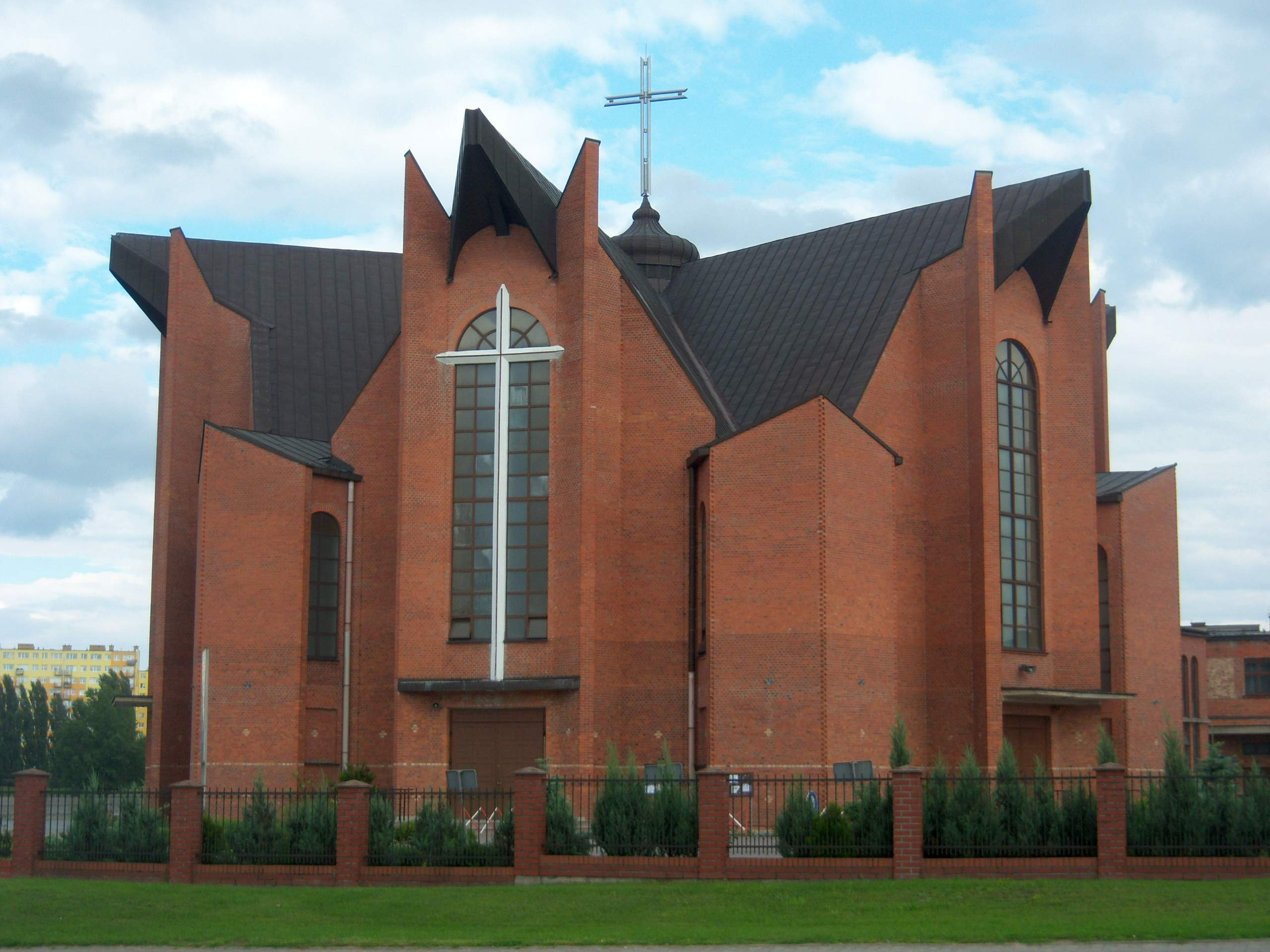 Roman Catholic Church of Holy Virgin Mary Queen of Poland at Przemysłowa Street in Konin